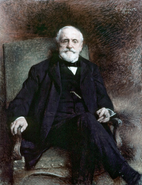 "Portrait of Carl Abegg Arter" oil on Canvas.